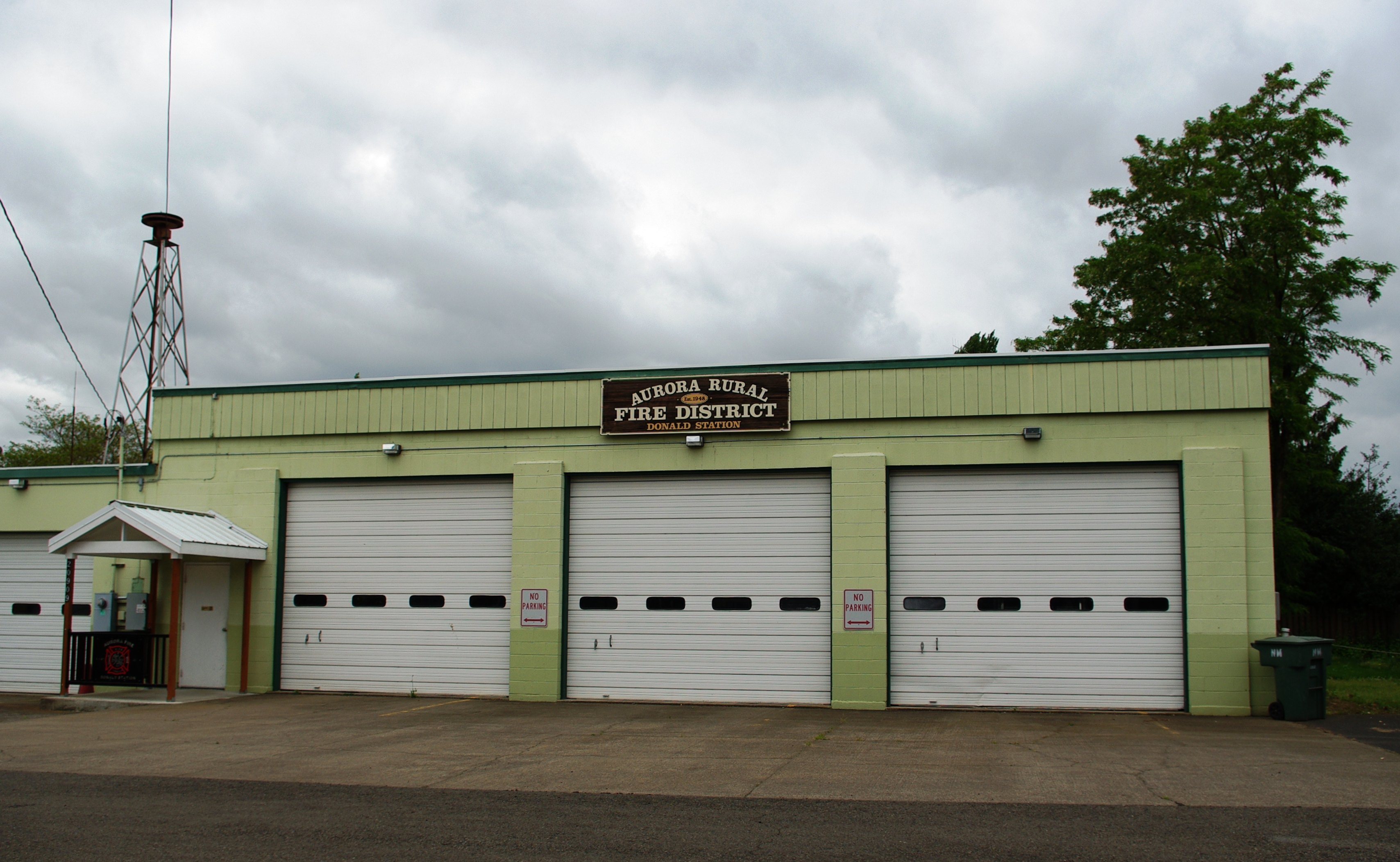 Fire station in Donald, Oregon